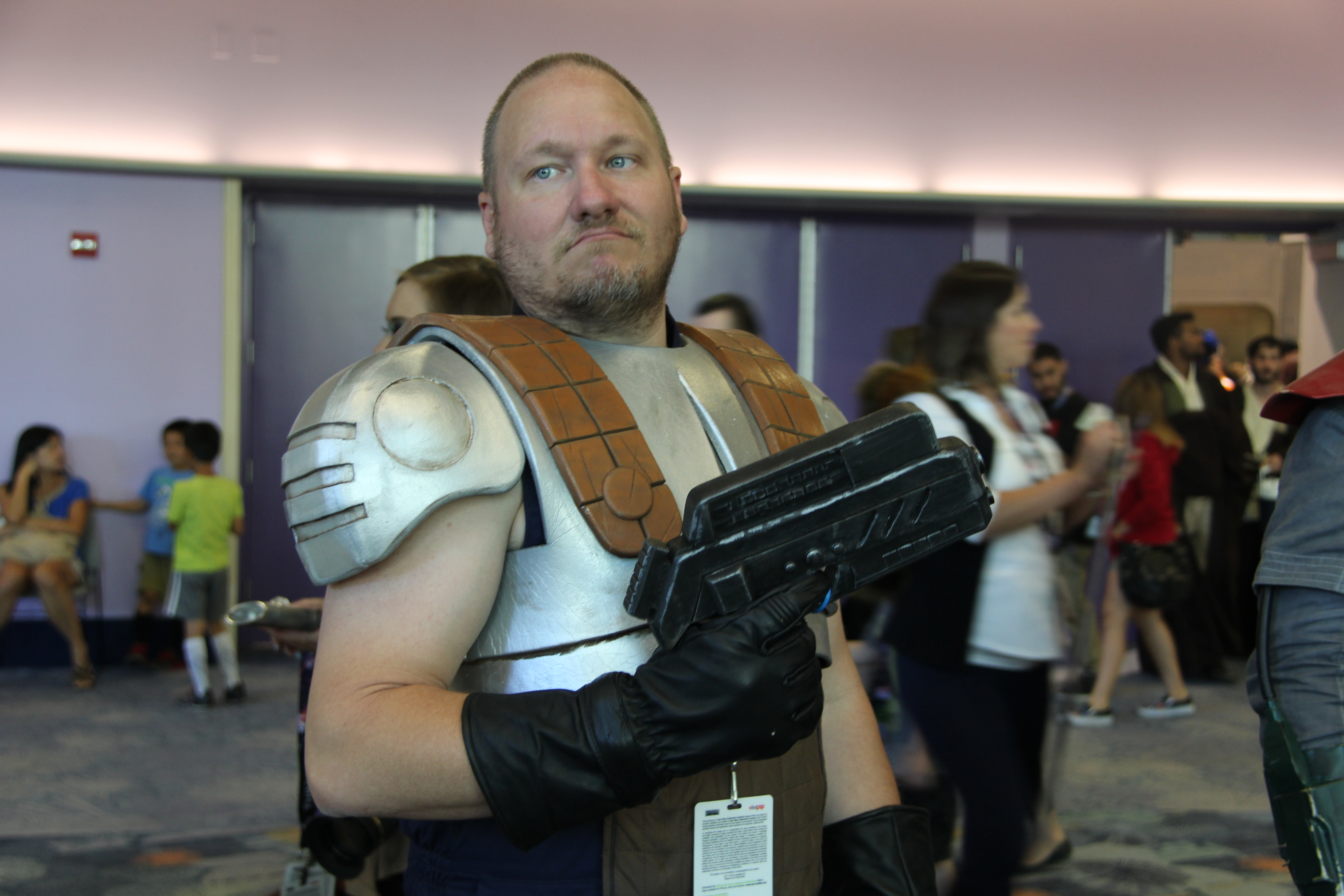 A cosplay of Dash Rendar from Shadows of the Empire. Star Wars Celebration in Anaheim, April 2015.